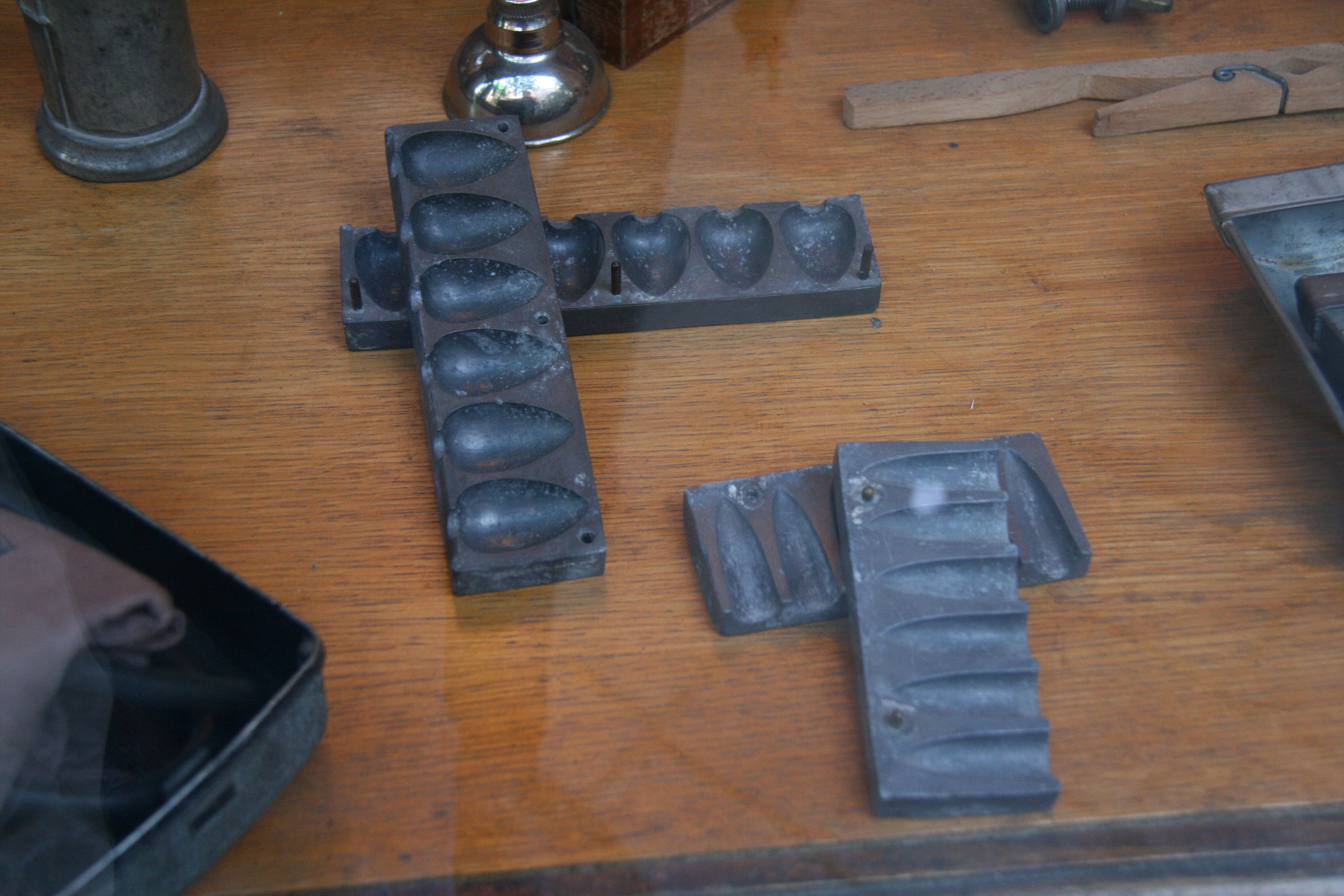 Suppository casting mould